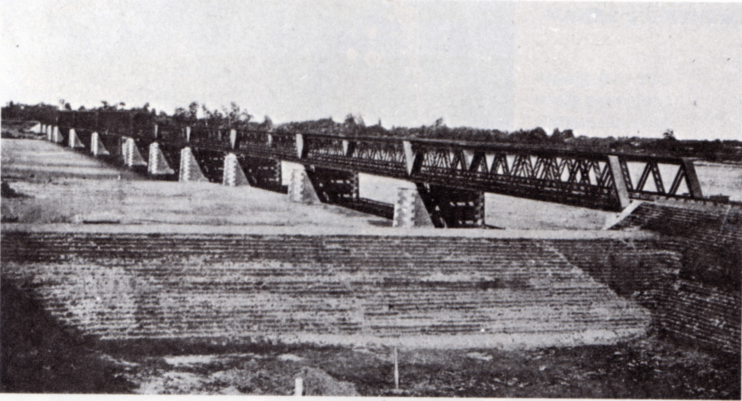 Tonegawa railway bridge on Tone river (Tonegawa) on Tohoku mainline. As the track on the photo is single track, the photo was taken before 1919 (when the bridge was double tracked).